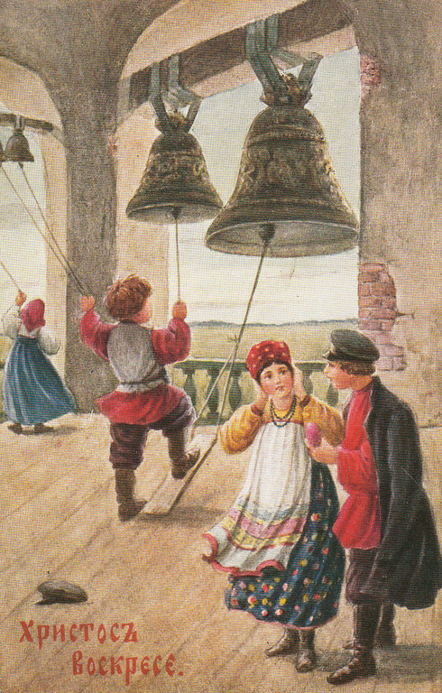 Old Russian Easter Postcard